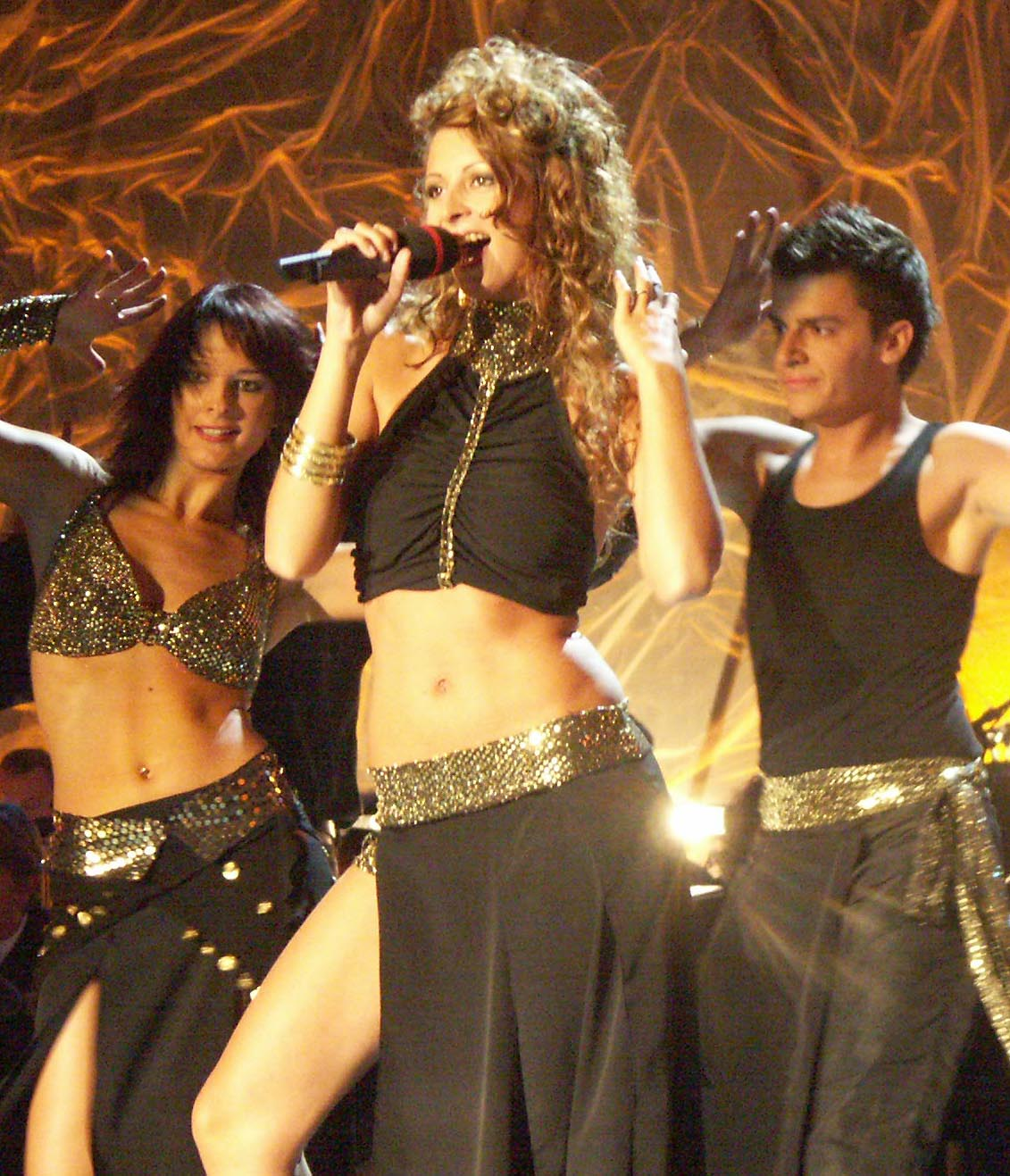 Žana (slovenian pop singer) with her dancing group photo:Ziga 23:08, 3 February 2007 (UTC)